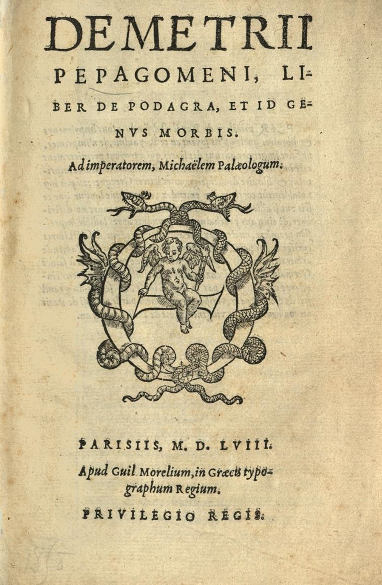 Title page of the greek to latin translation of Σύνταγμα περὶ τῆς ποδάγρας / Liber De Podagra of Demetrios Pepagomenos, Paris, 1558